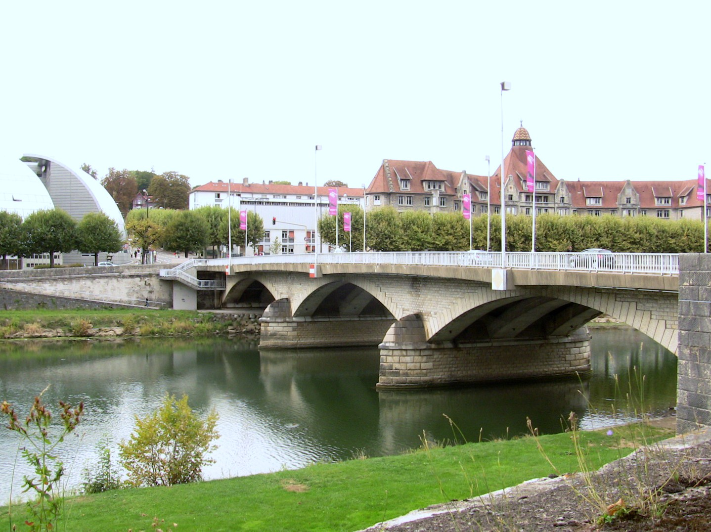 Bridge of Canot, located in Besançon (Doubs, France)